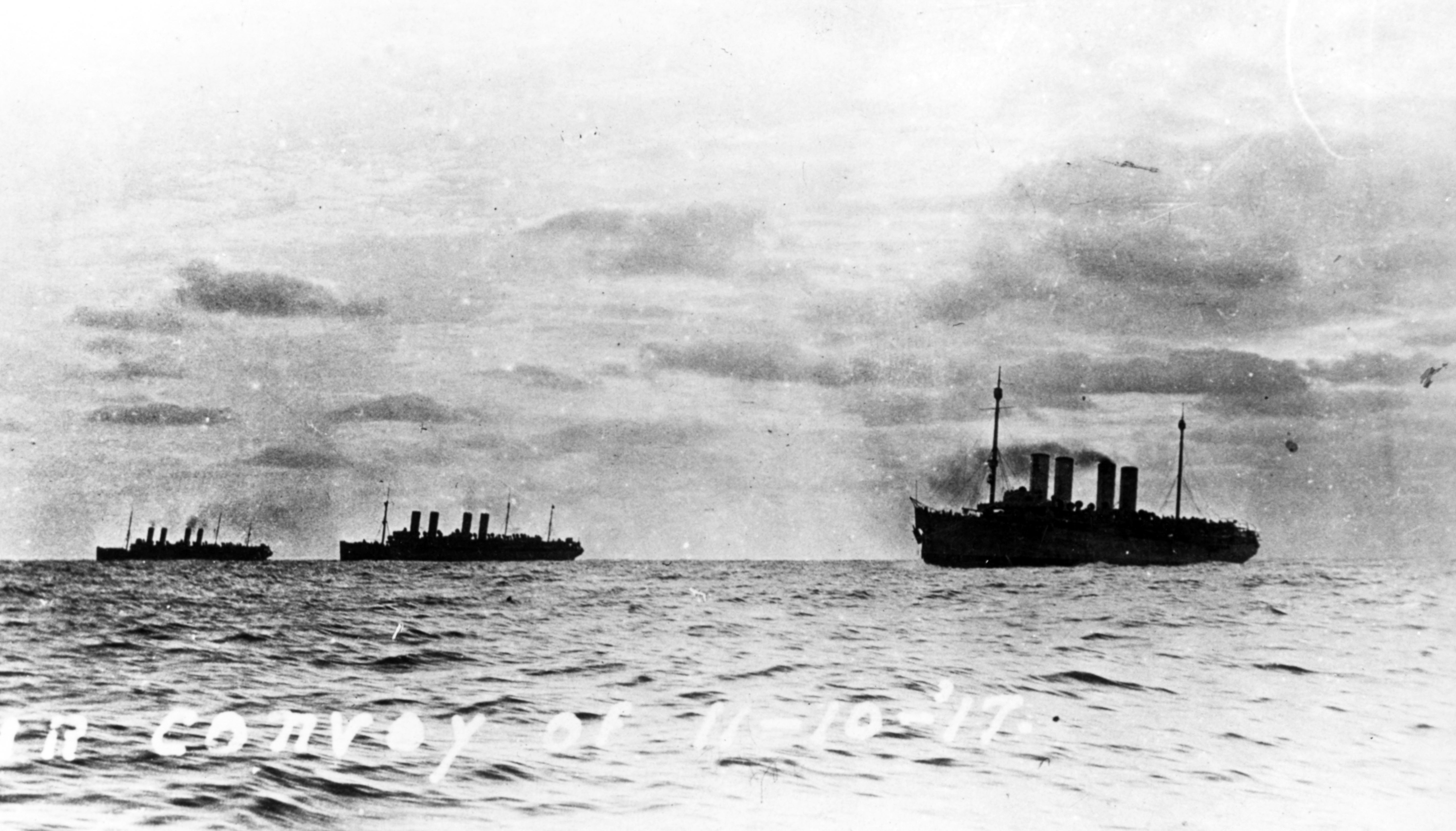 10 November 1917, USS Mount Vernon ID-4508, USS Agamemnon ID-3004 and USS Von Steuben ID-3017 in the North Atlantic